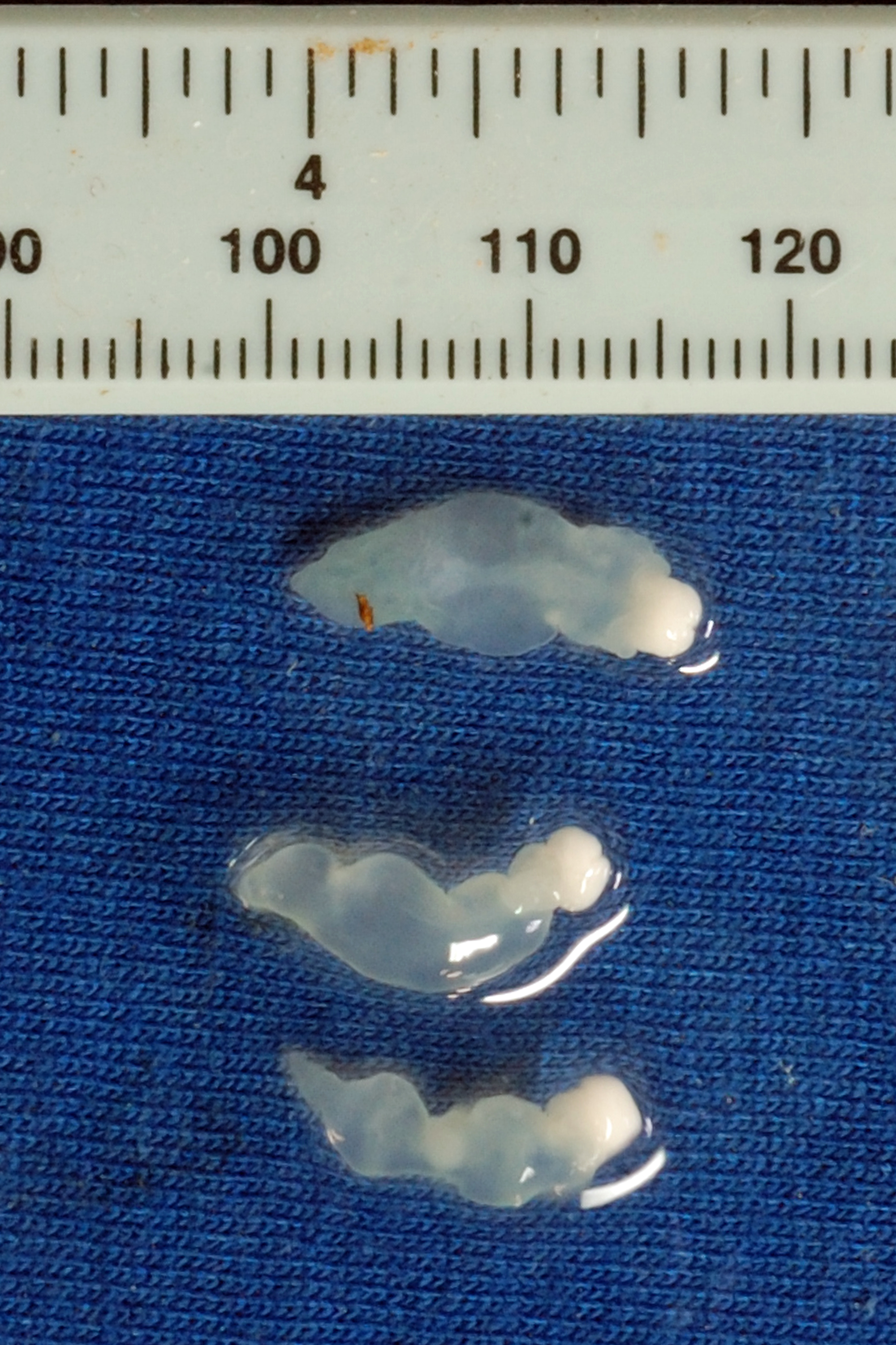 mesacestoide (the larval stage) of Taenia pisiformis found in Brush Rabbit (Sylvilagus bachmani)